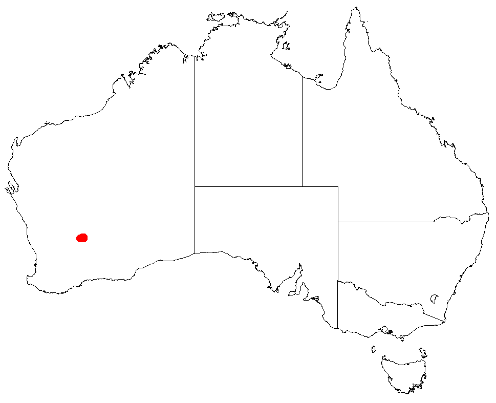 Acacia adinophylla Occurrence data from Australasia Virtual Herbarium downloaded from on 8 December 2018